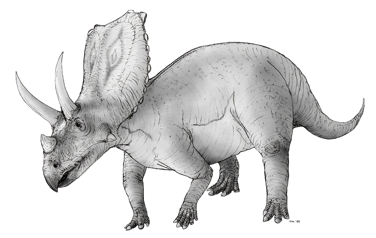 A drawing of Chasmosaurus, a ceratopsid dinosaur with typical long frill with "fenestrae". Made by Tim Bekaert, 2006.